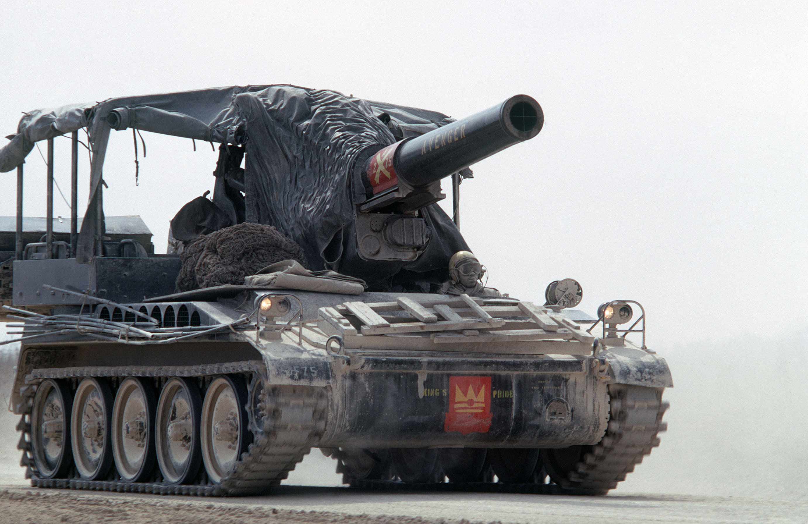 A right front view of an M110 203 mm self-propelled howitzer underway during a training exercise.